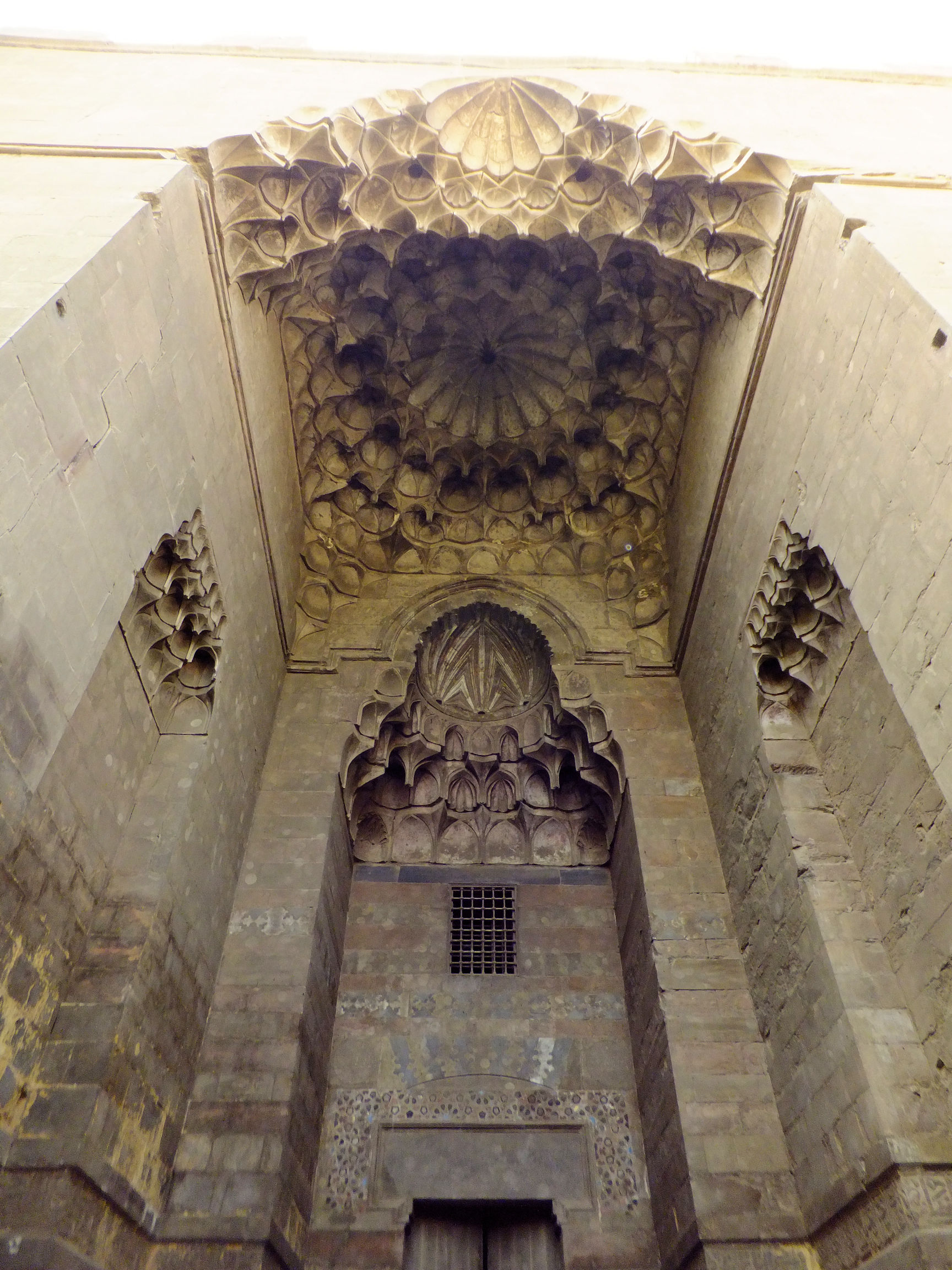 Main entrance portal of the Palace of Qawsun